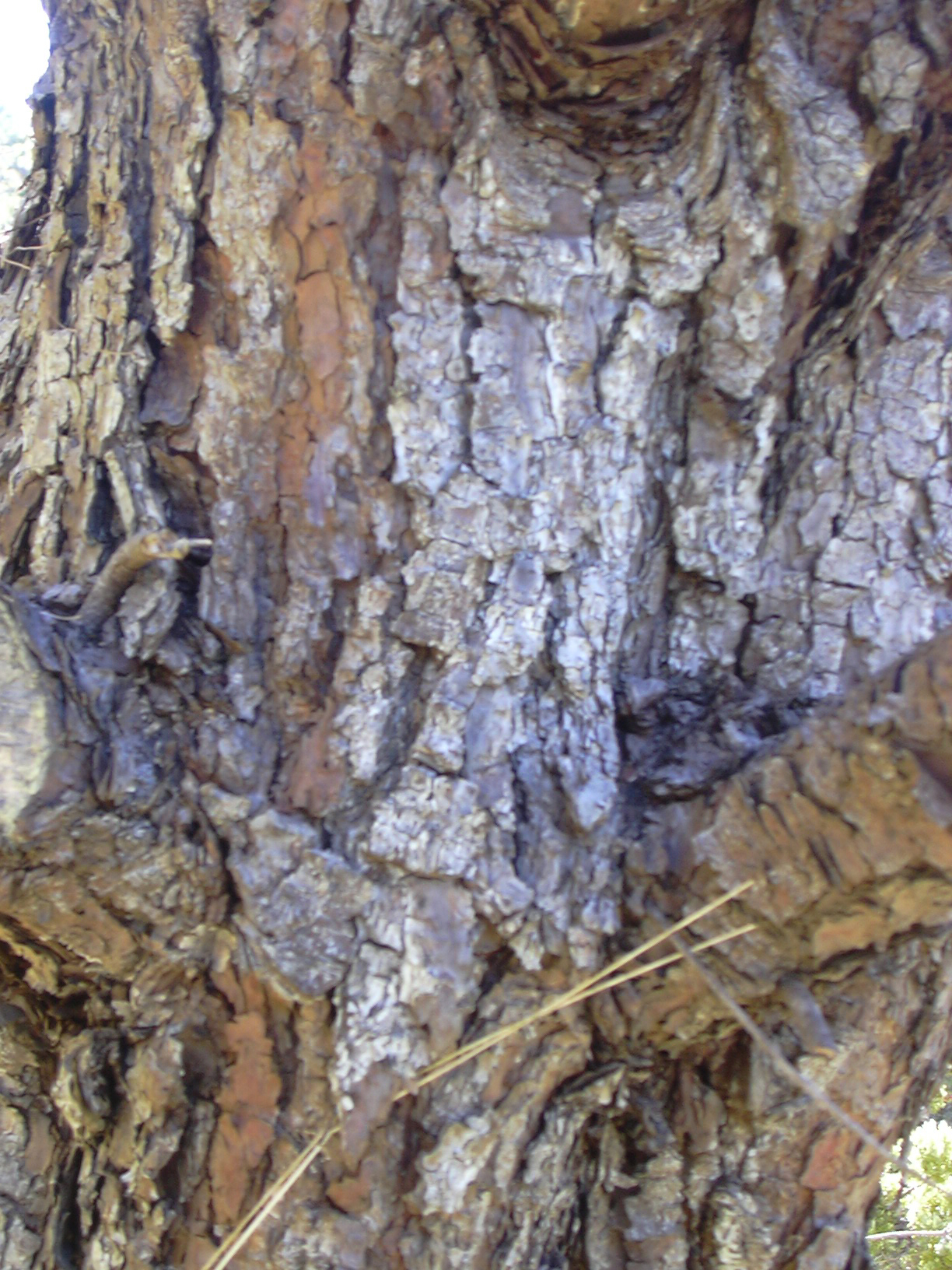 Pinus patula (bark). Location: Maui, Puu Nianiau